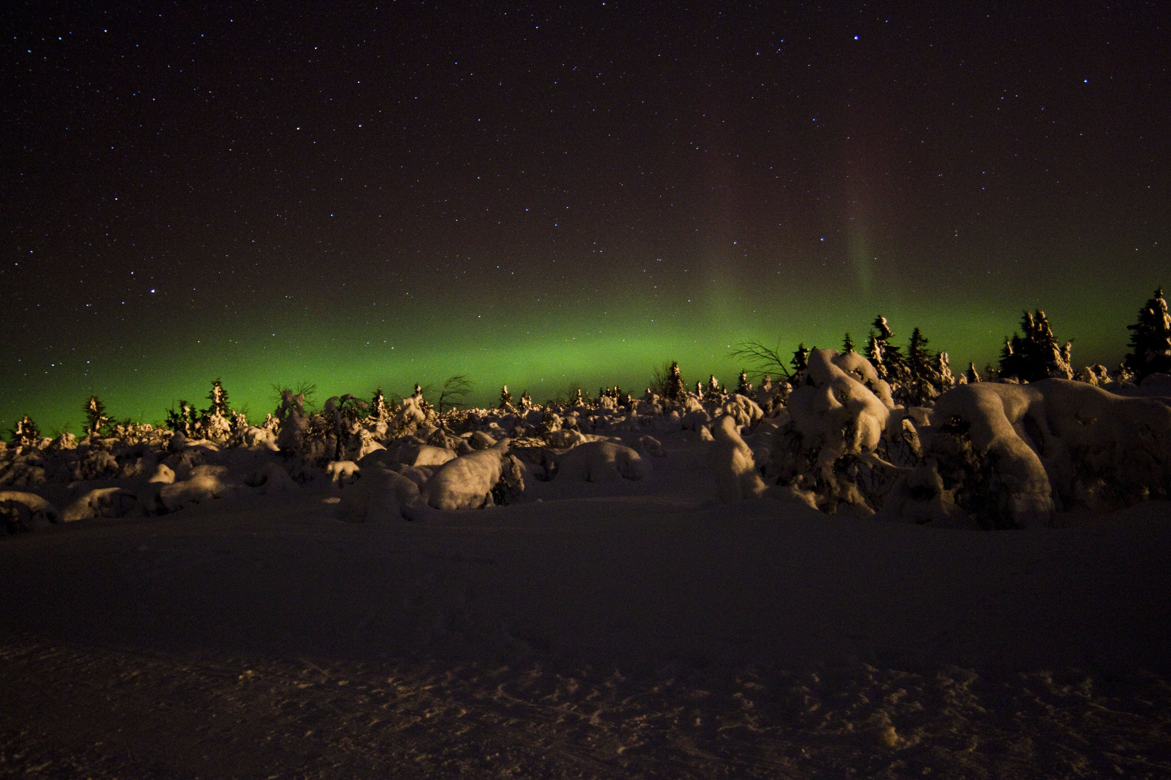 The aurora borealis (or the northern lights)